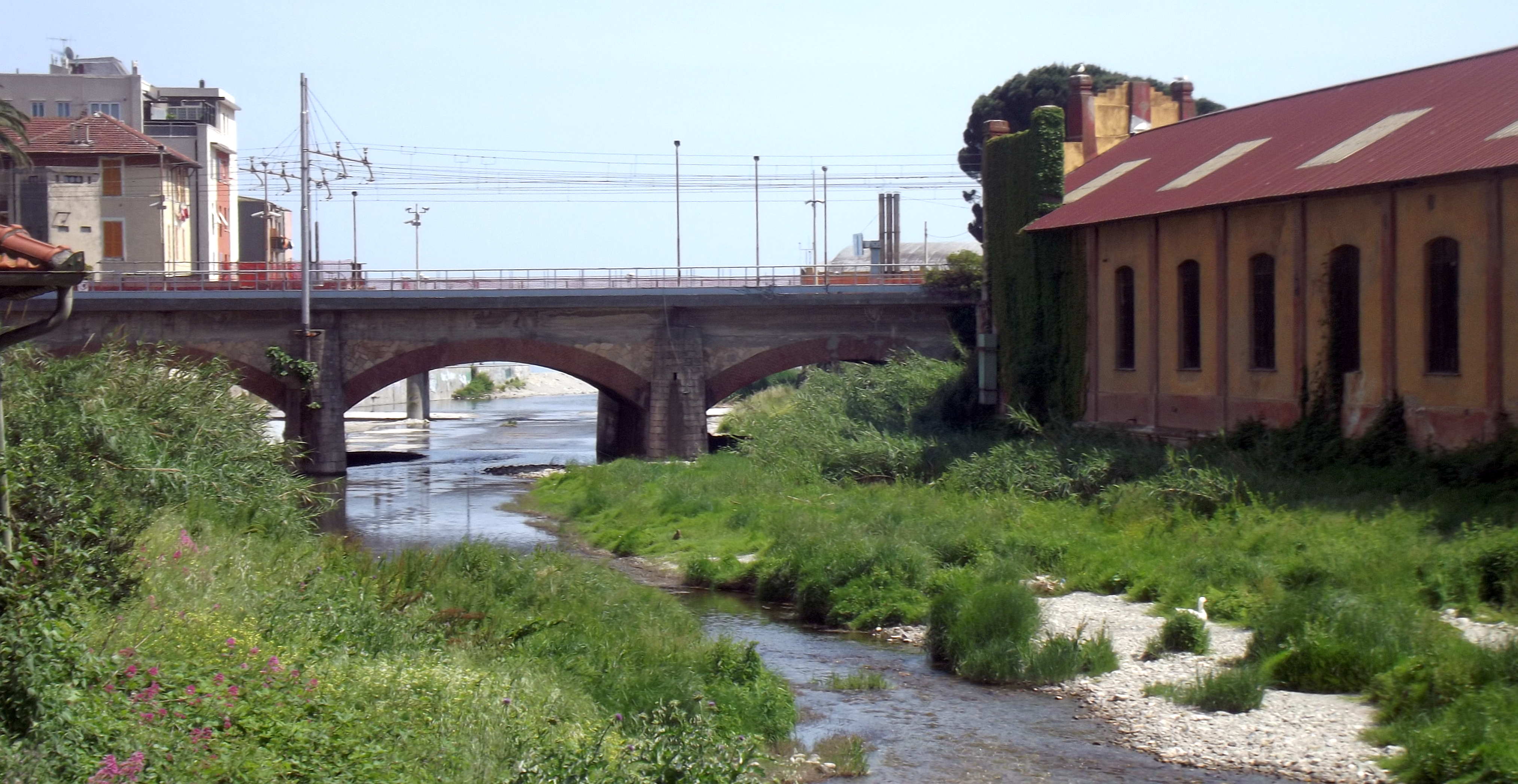 Railway bridge on the Torrente Pora (Finale Ligure, SV, Italy)